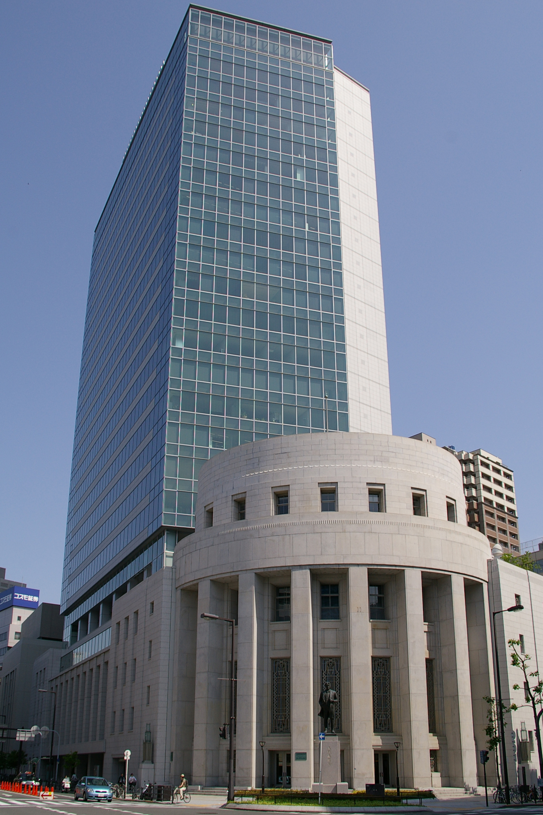 Photograph of Osaka Securities Exchange Building in Chuo-ku, Osaka, Osaka Prefecture, Japan.